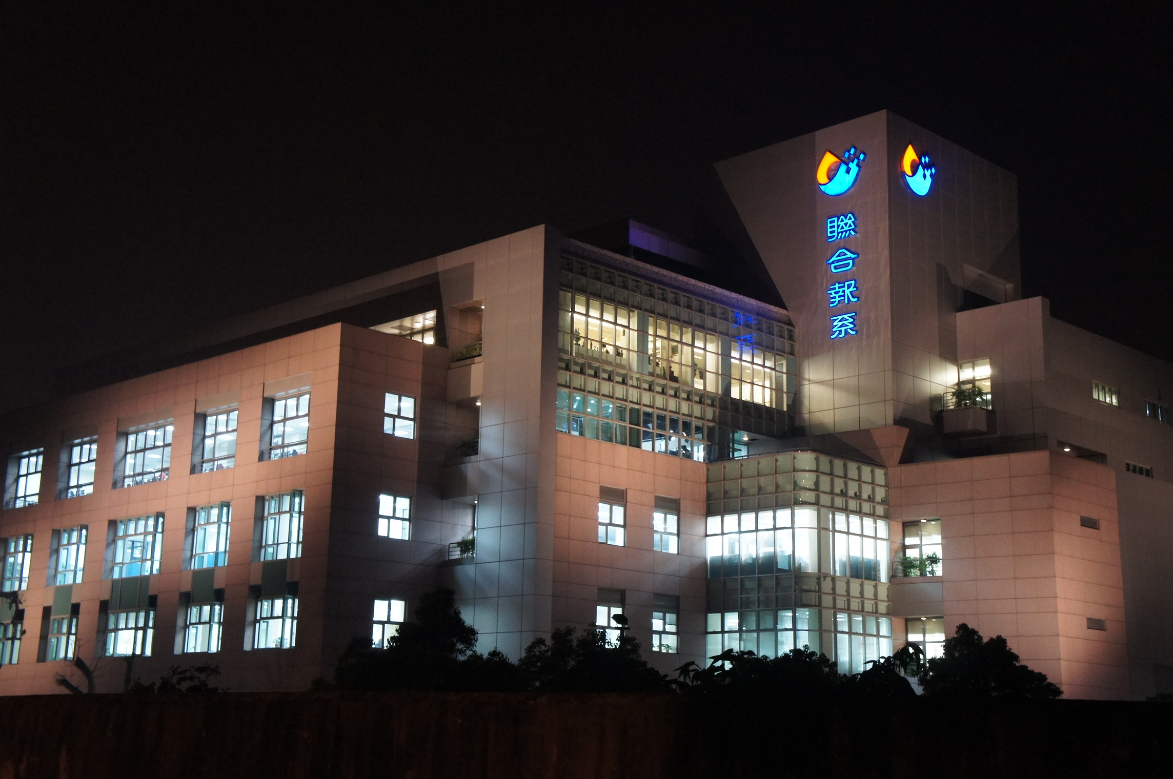 The United Daily News Group Building in Xizhi in the evening.